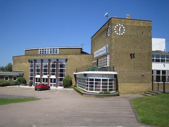 Luton Sixth Form College This is the oldest part of the College, built on the north side of Bradgers Hill Road in 1938, as new premises for Luton Modern School. At that time the School was on the northern edge of the developed area of Luton with open countryside beyond. In 1944 the school became Luton Grammar School, and in 1966 it became the first Sixth Form College in the country, drawing together the Sixth Forms from the three selective schools in Luton. Today the site buildings are much expanded and modern. The College's website is here